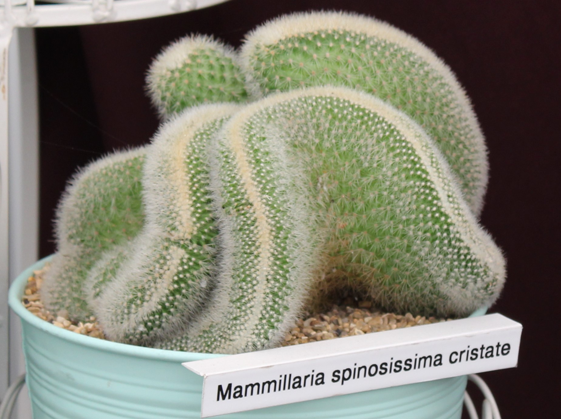 Hampton Court Palace Flower Show 2018